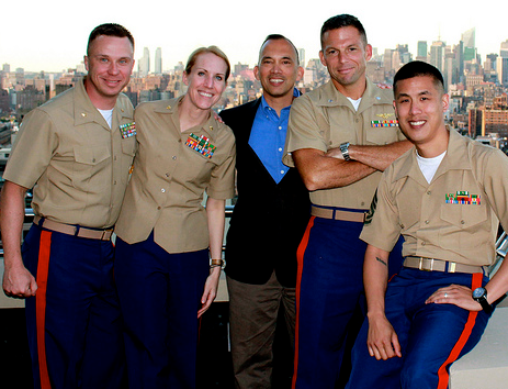 U.S. Marines at the PRSA 2010 "Digital Impact" conference in New York City. Since 2010, the Universal Accreditation Board has offered the "Accredited in Public Relations and Military Communications" certification as part of a program developed in cooperation with the U.S. Department of Defense Defense Media Activity.